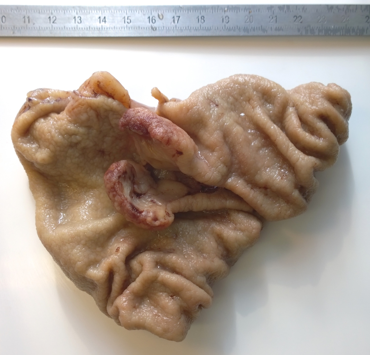 Fibroinflammatory polyp of the stomach